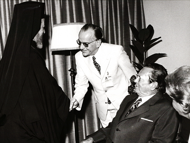 Conference about europian security and cooperation, in Helsinki: the reception of the president of Cyprus, Archbishop Makarios. Inventory number: 1975_585_129 Српски (ћирилица): Конференција о европској безбедности и сарадњи у Хелсинкију : пријем председника Кипра, архиепископа Макарија. Инвентарски број: 1975_585_129